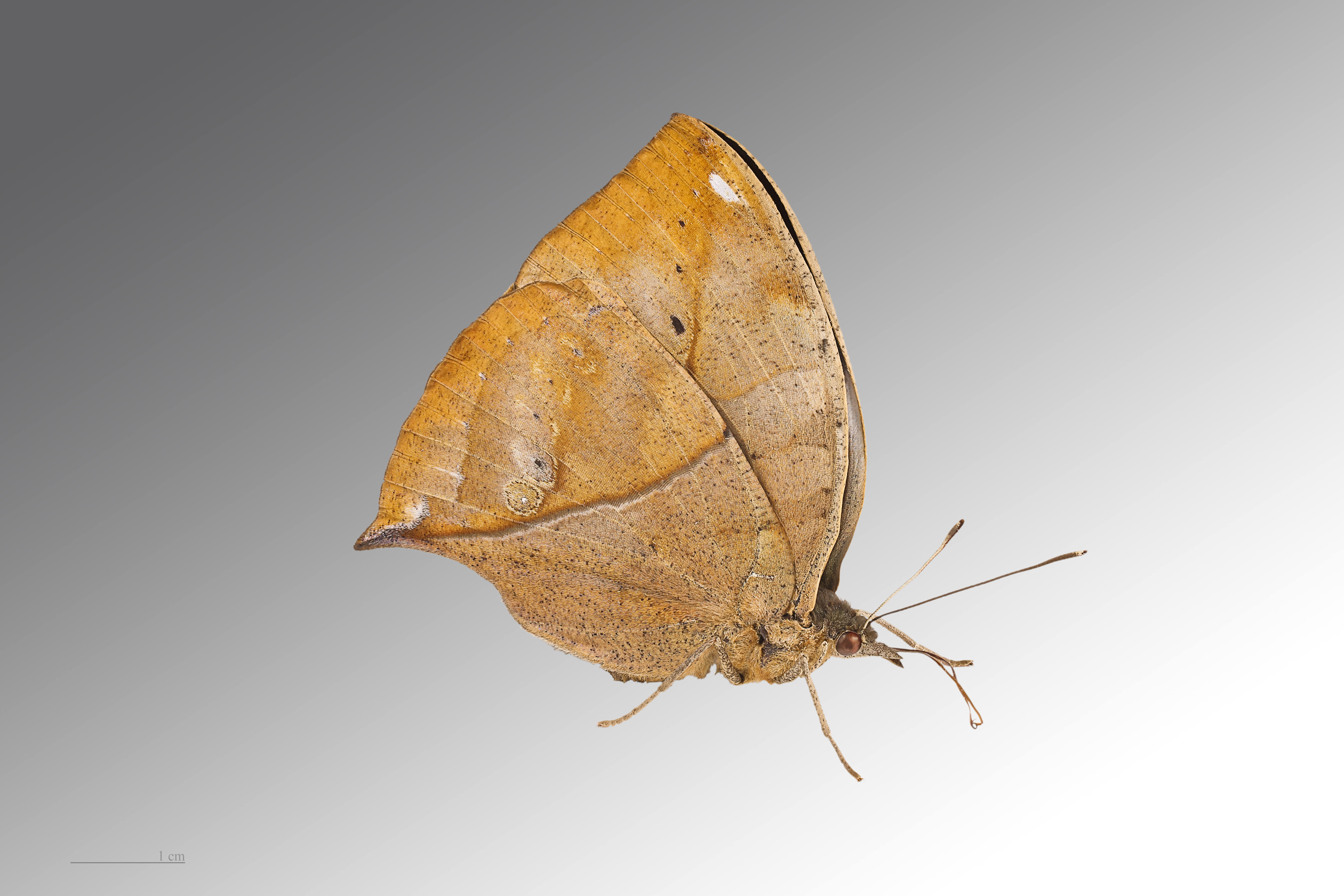 Female specimen - Ventral side Locality: Barat, Jaca, Indonesia